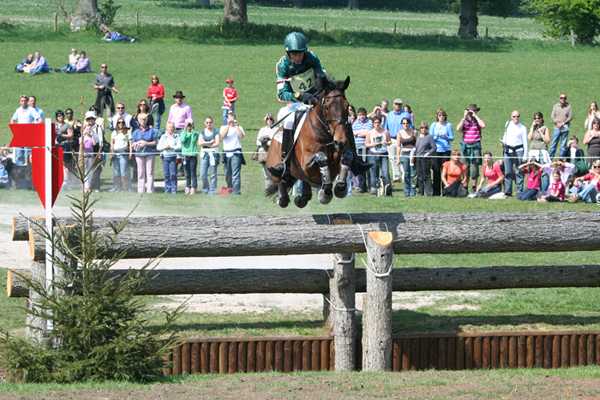 Jonty Evans (IRL) riding round Badminton This is the first jump Jonty tackled after the long mid-course delay following Icare d'Auzay's fatal accident.